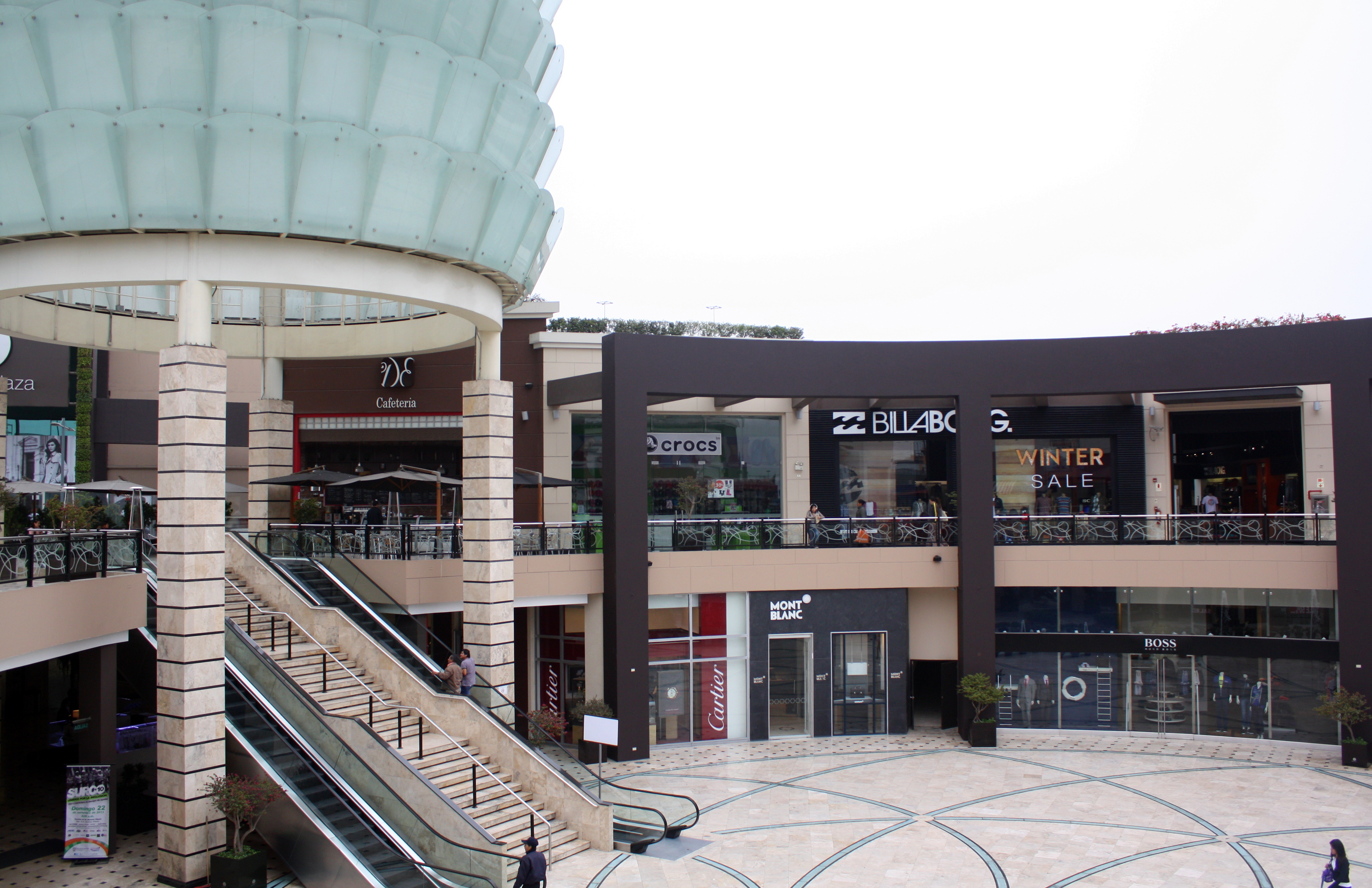 Shopping mall in Lima, Peru city.